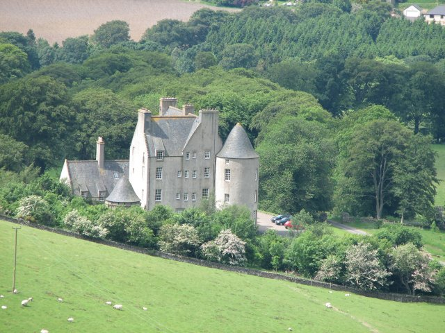 Broughton Place. Tower house hosting an art gallery.